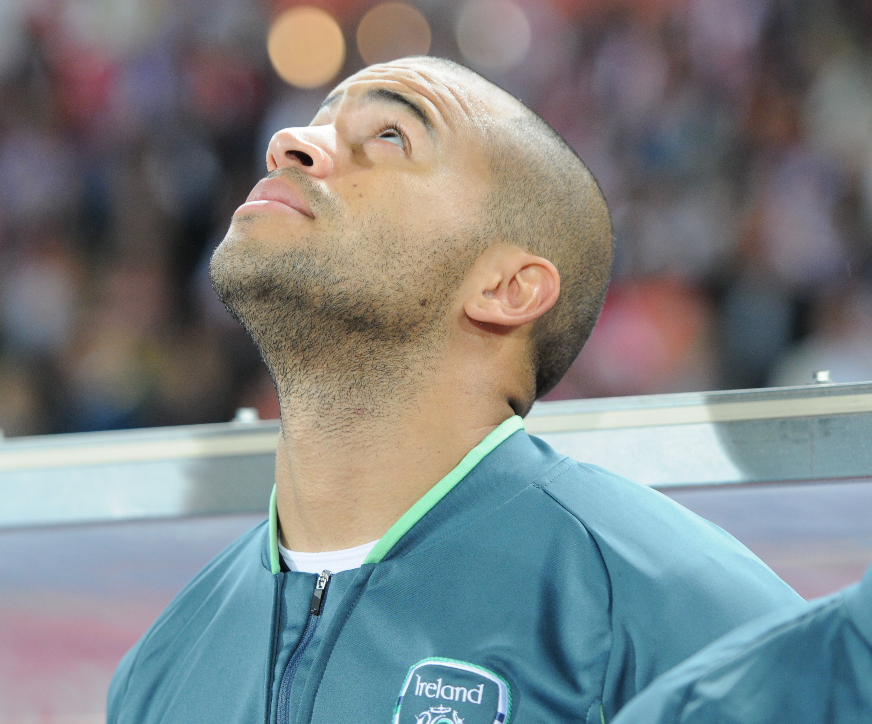 2014 FIFA World Cup qualification (UEFA), Group C: Republic of Ireland national football team at 10. September 2013 before the match against the Austria national football team (0:1) in the Ernst-Happel-Stadion in Vienna. Here: Darren Randolph, Irish Goalkeeper. The making of this work was supported by Wikimedia Austria. For other files made with the support of Wikimedia Austria, please see the category Supported by Wikimedia Österreich.